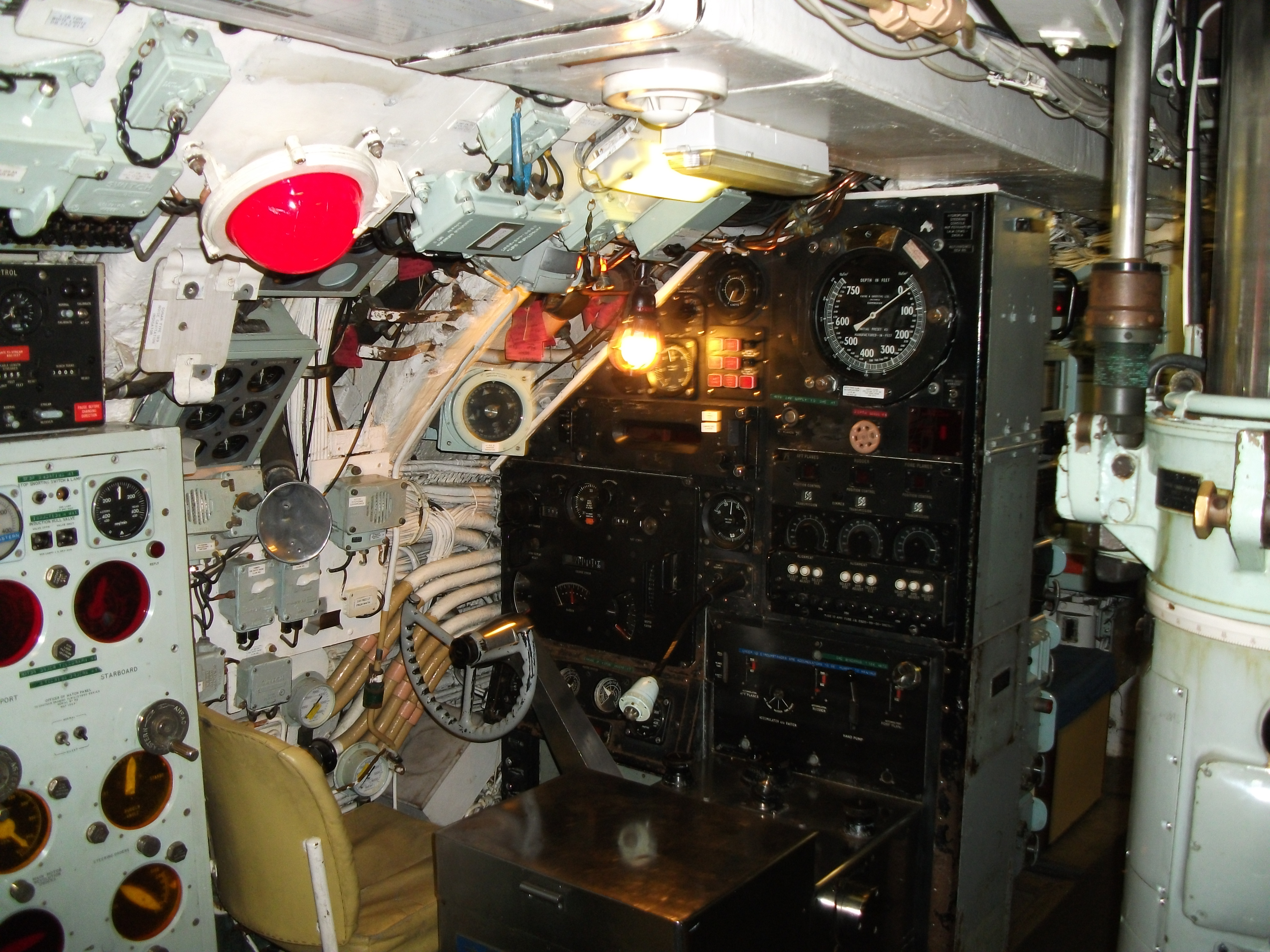 Pilot's station onboard Oberon class submarine HMS Ocelot (launched 5 May 1962). The submarine is now preserved at the Chatham Historic Dockyard museum, Chatham, Kent, UK. The aeroplane-style wheel was added to the submarine during its service life. Originally the submarine had to be guided by less compact controlls operated by more than one man.